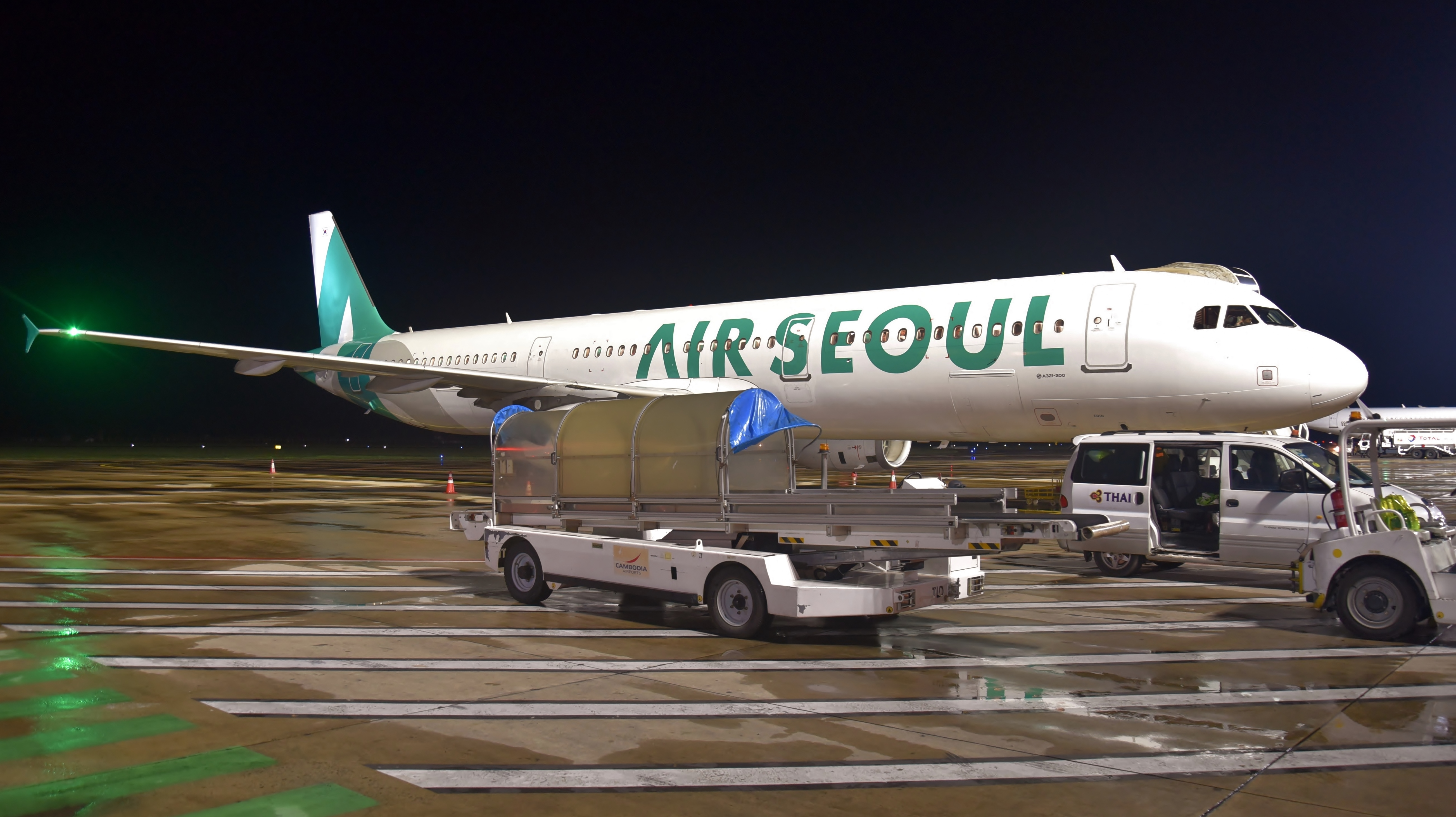 Air Seoul Airbus A321 HL8281 at Siem Reap International Airport, Siem Reap, Cambodia